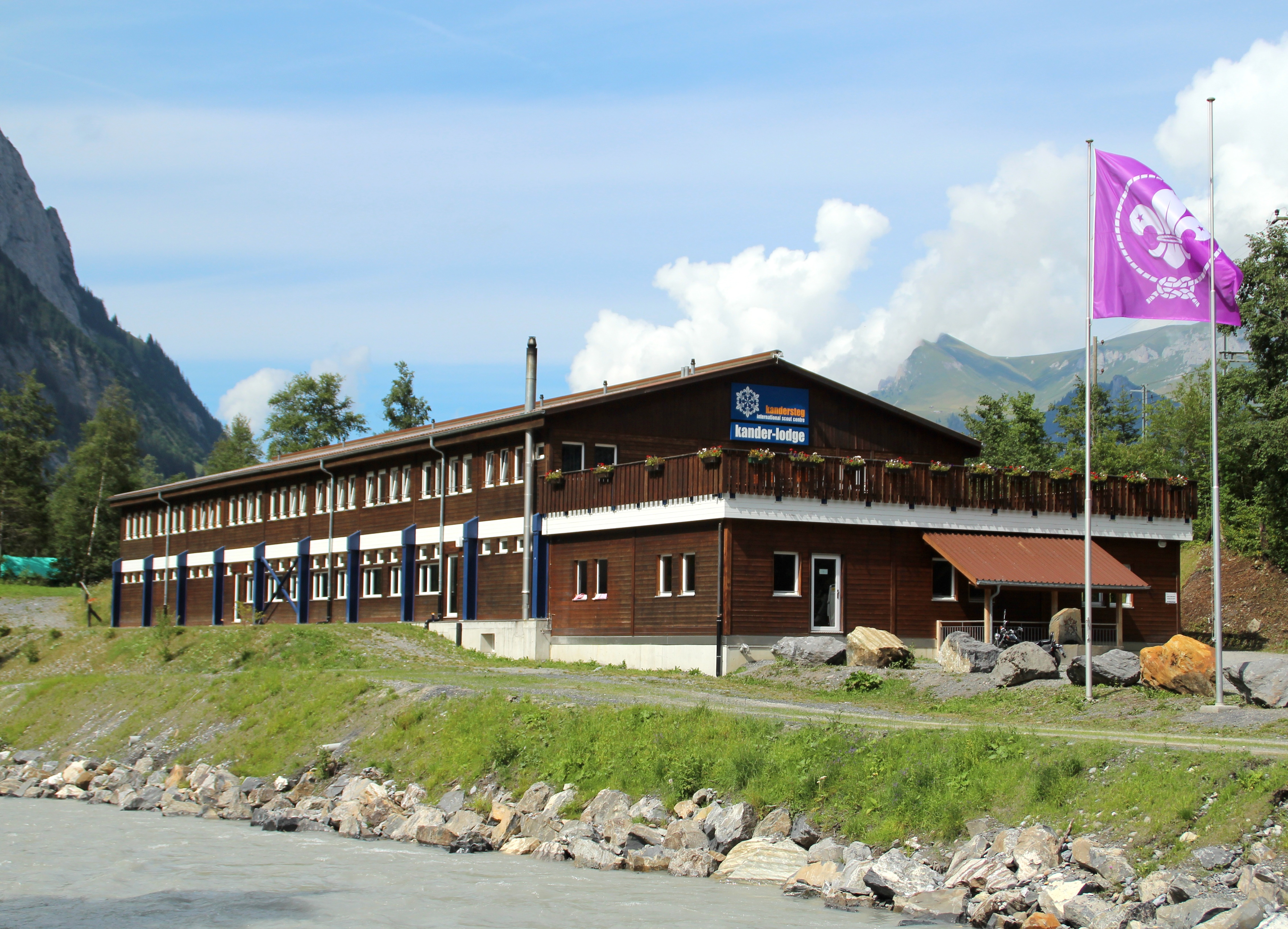 Kandersteg International Scout Center, August 2012